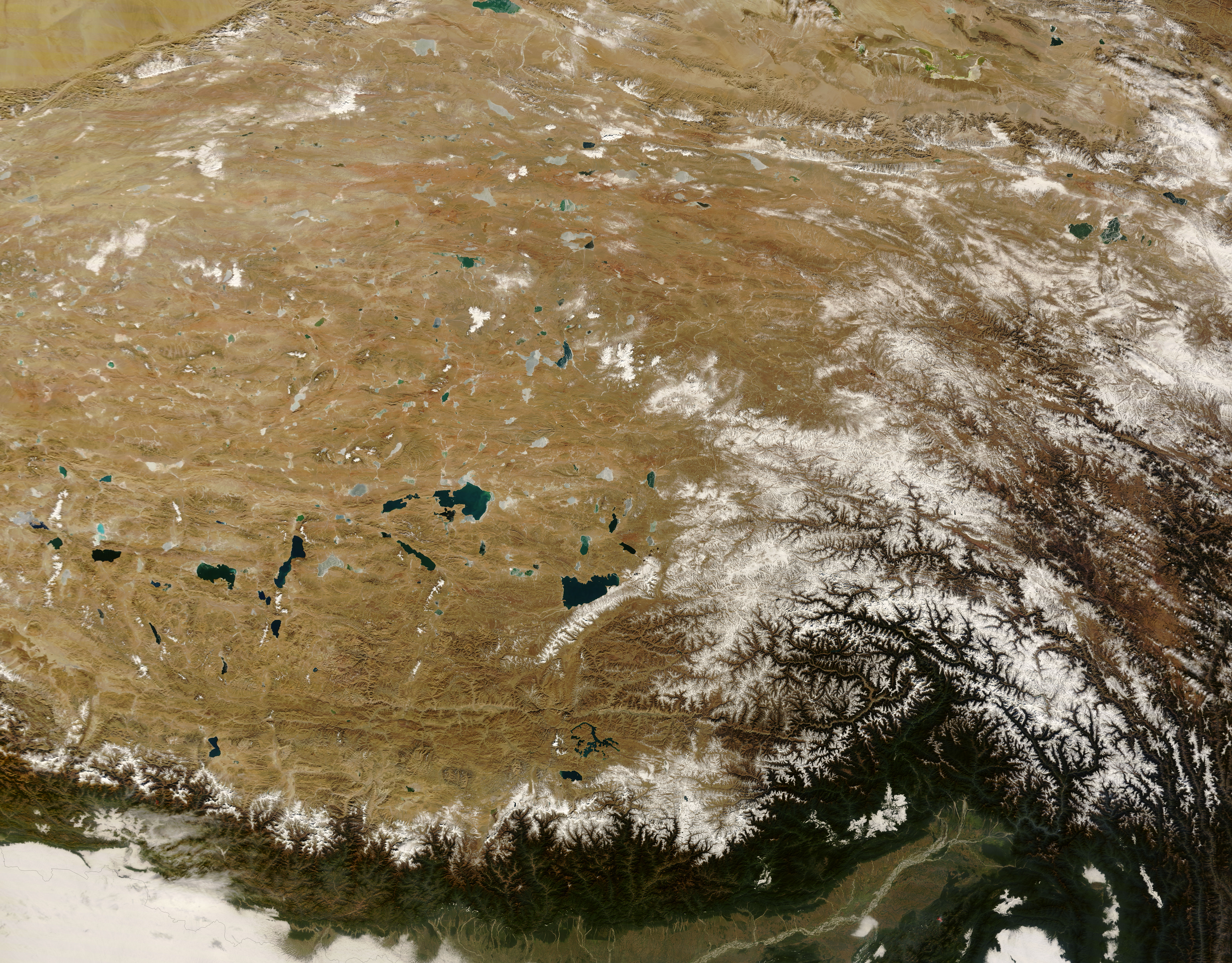 The Tibetan Plateau — in Tibet.